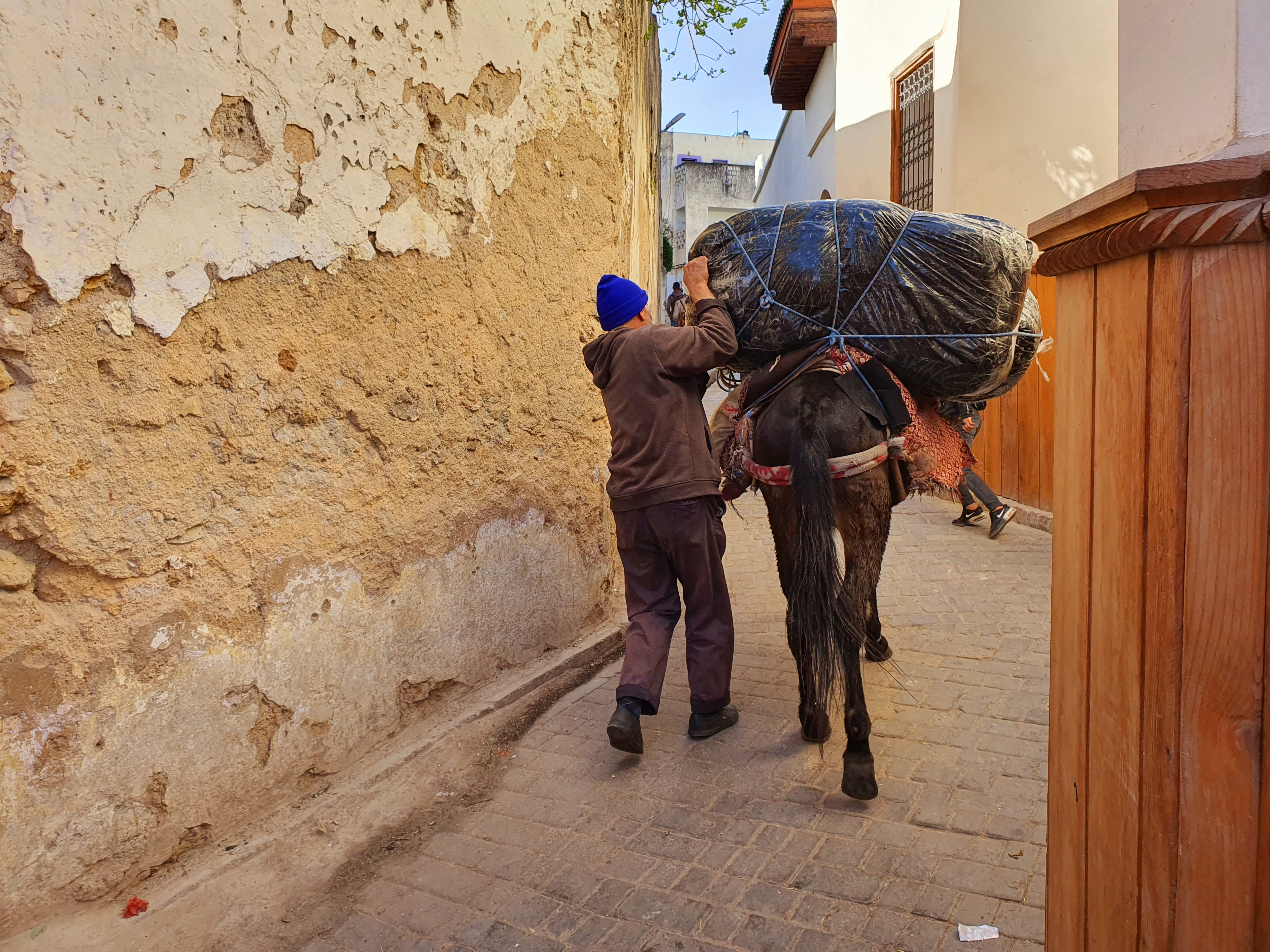 In the city of Fez, Morocco, the circulation of cars in the Medina is prohibited, so all delivery in this region must be made by mules or cars. This is an image with the theme "Africa on the Move or Transport" from: Morocco